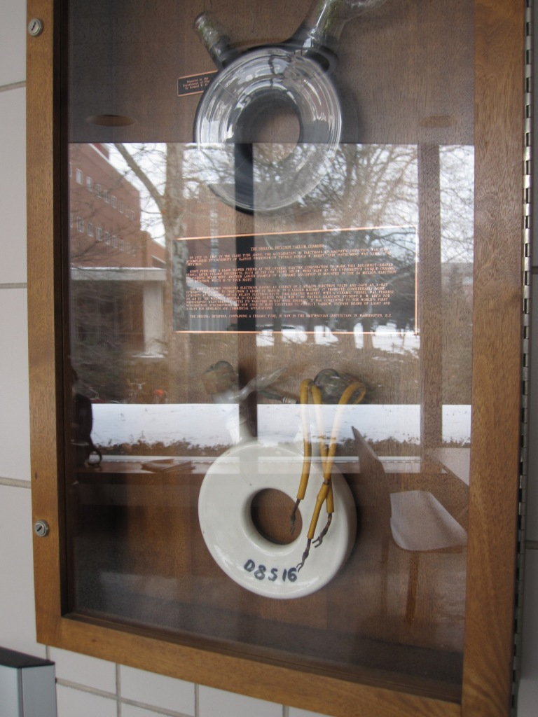 Betatron vacuum chamber.